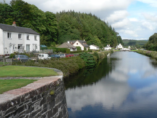 Cairnbaan: Crinan Canal Looking east along the canal from Lock 8.